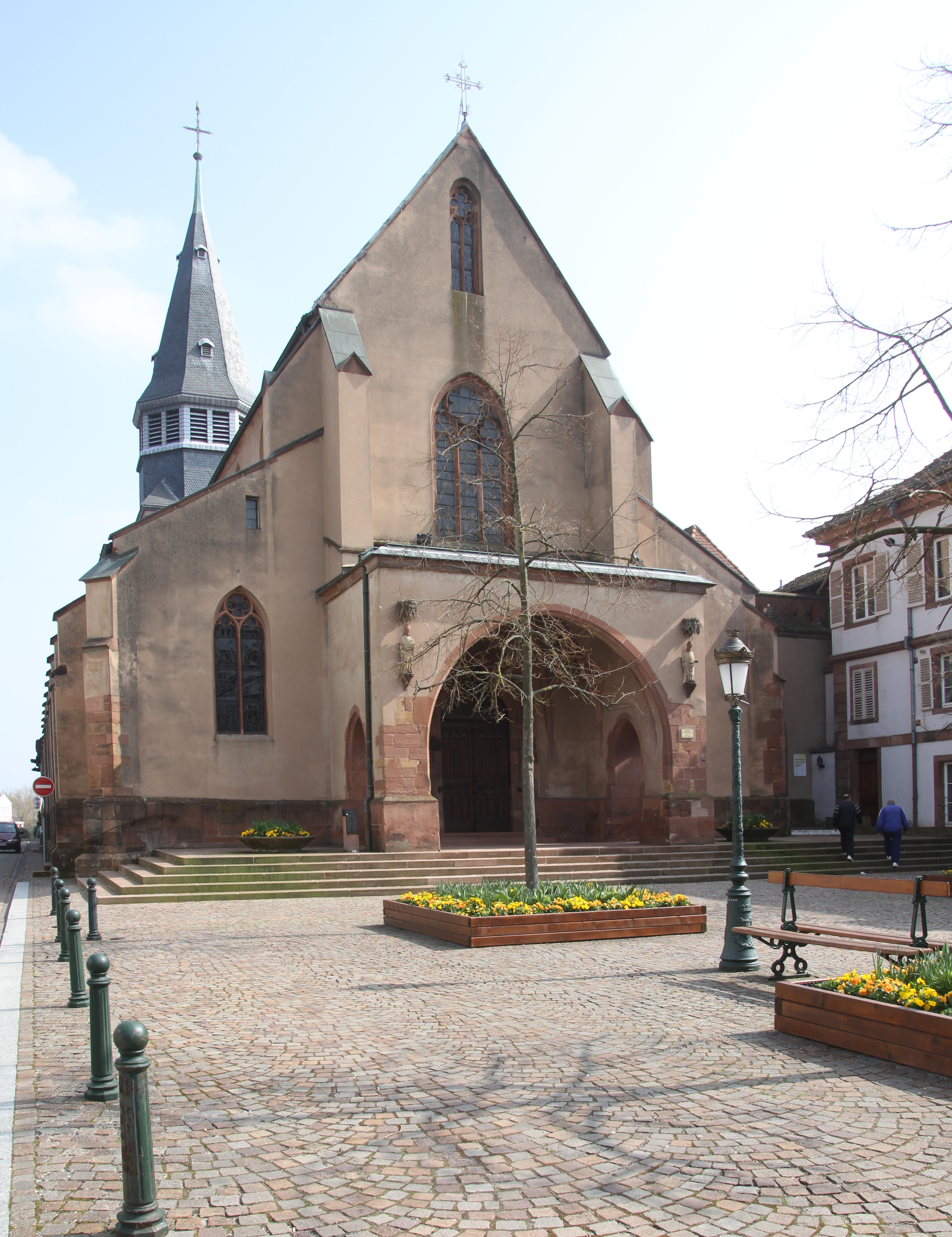 Church of Saint Nicholas in Haguenau